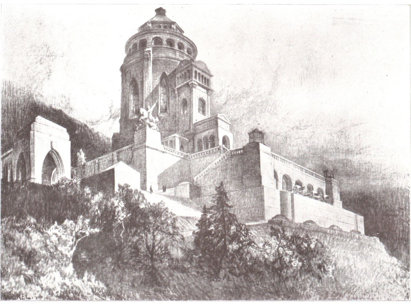 Charcoal drawing by Reinhold Völkel of the proposed "Monument for Peace and Alliance" by Walter Lenck. The drawing was part of the exhibition of works by Lenck that took place at the Musikverein in Vienna, Austria, in May 1916.